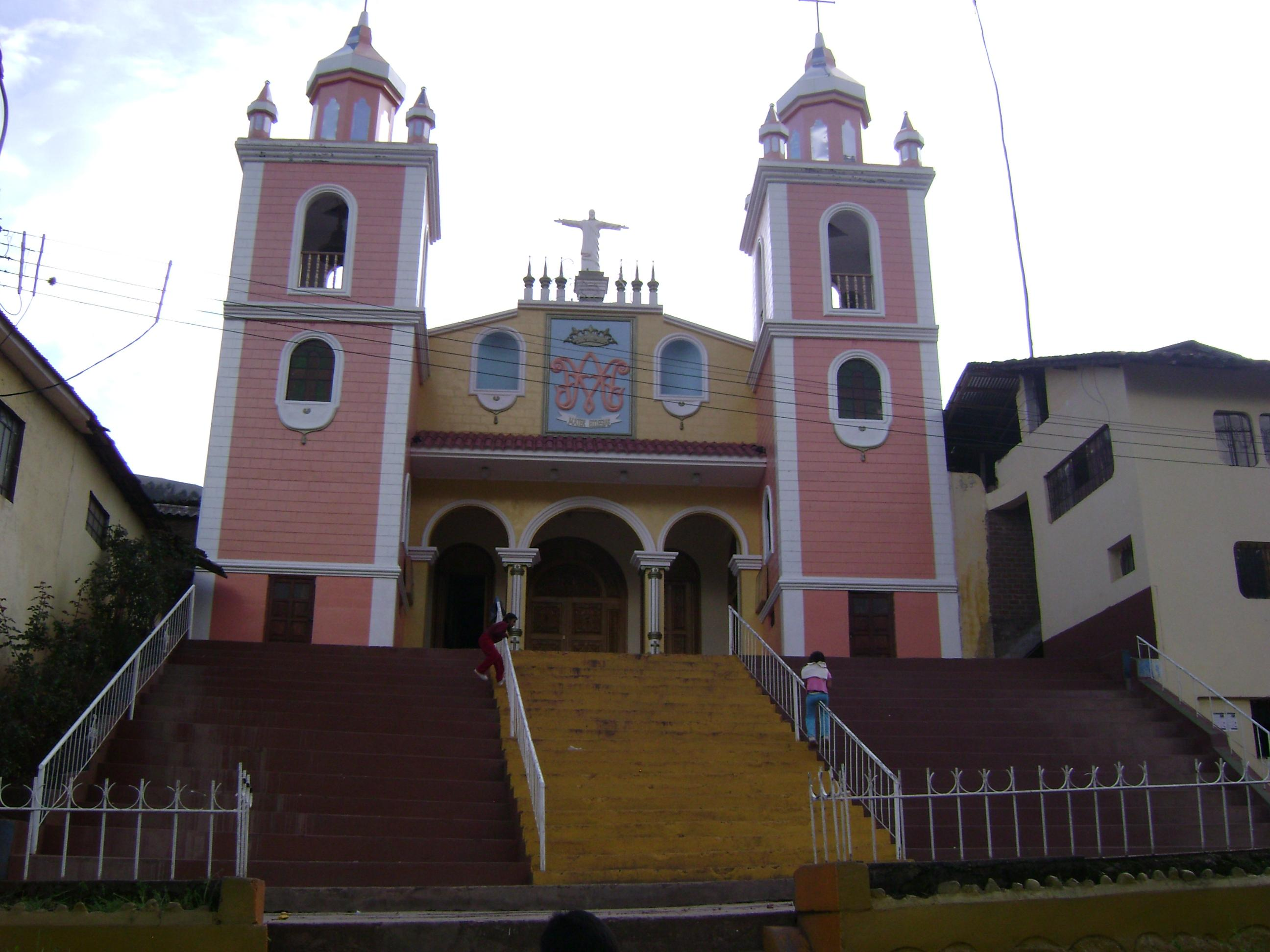 imagen